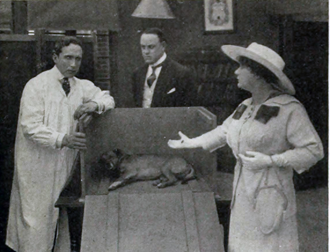 Illustration of an article in The Moving Picture World for the film The Inner Struggle (1916).